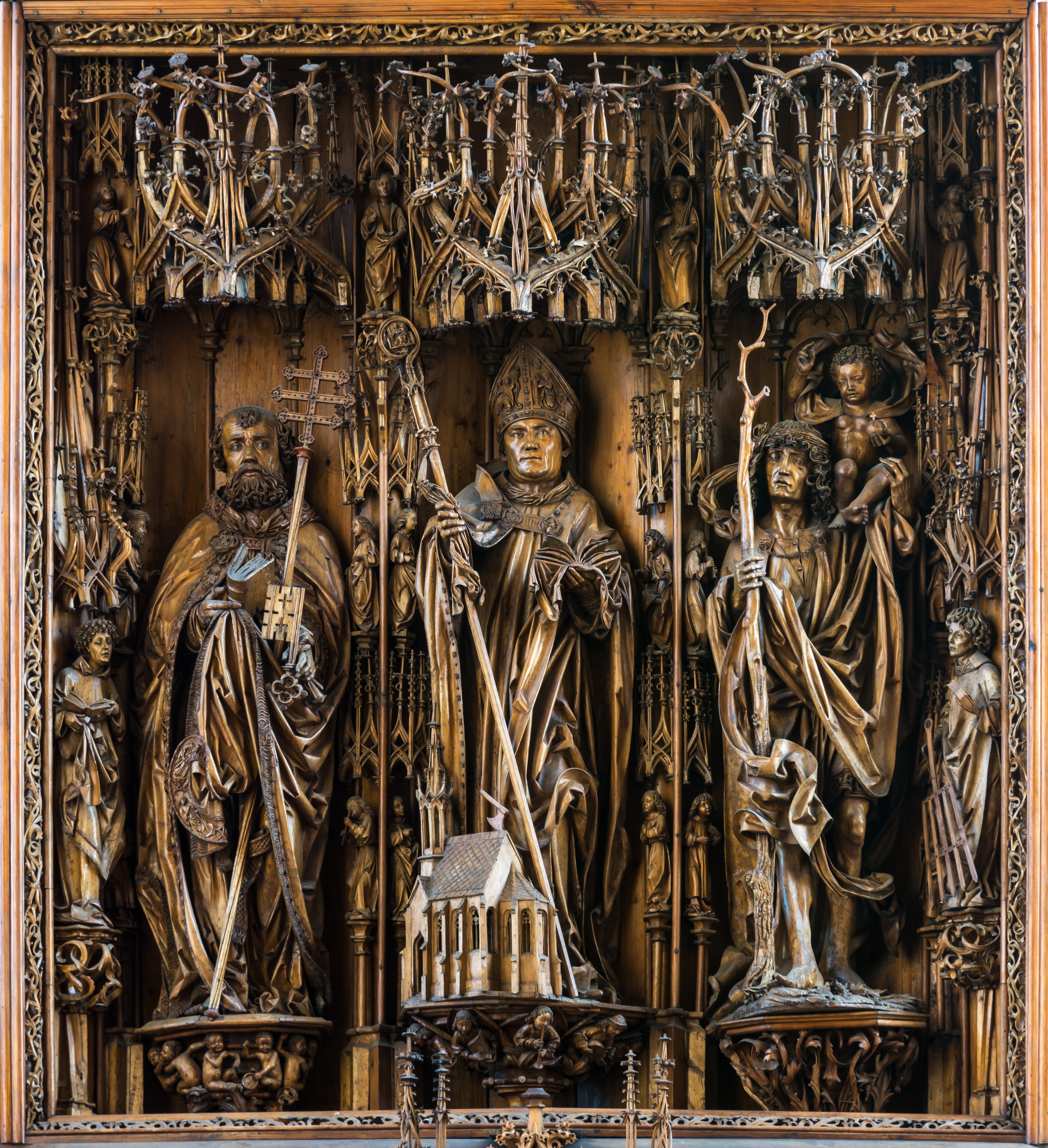 Shrine of the winged altar at the parish- and pilgrimage church Kefermarkt, Upper Austria. Anonymous master (called Master of the Kefermarkt Altarpiece), around 1497.